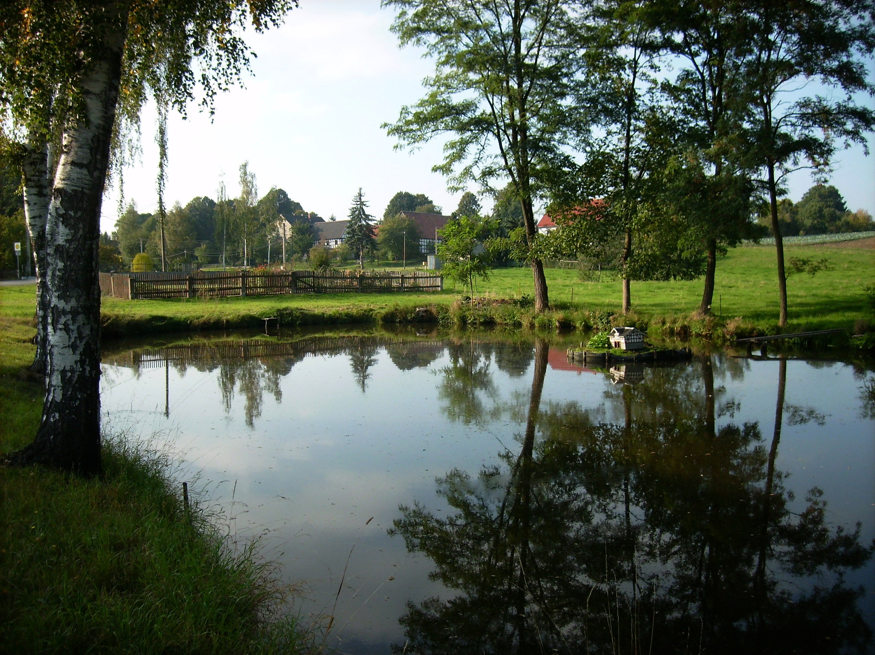 Pond in Harthau (Oberwiera, Zwickau district, Saxony)